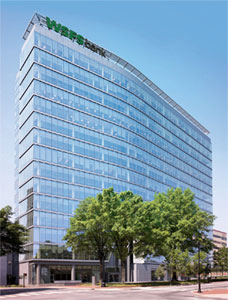 Image of the Bank Center